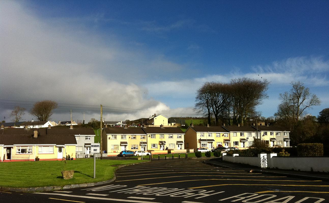 A row of houses in Manorcunningham, Co Donegal, Ireland